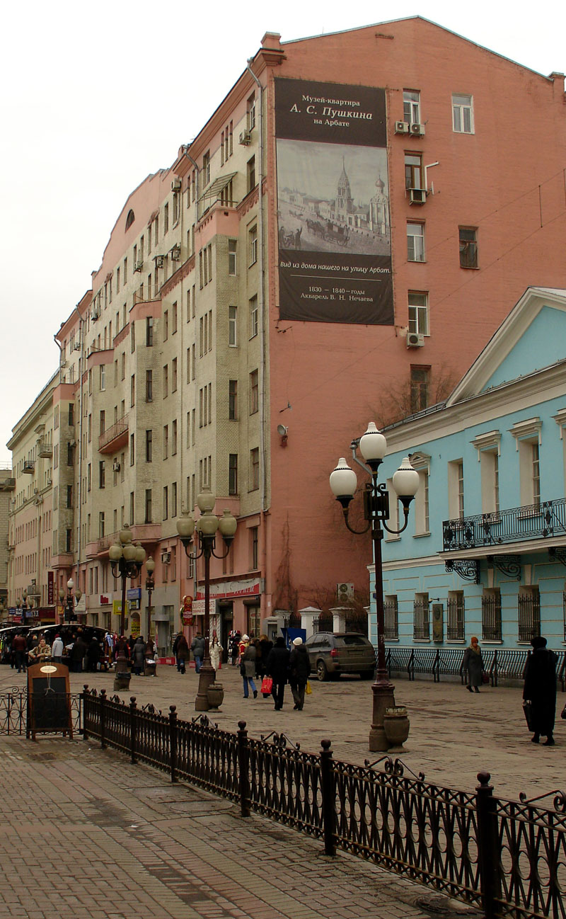 Arbat street, Moscow